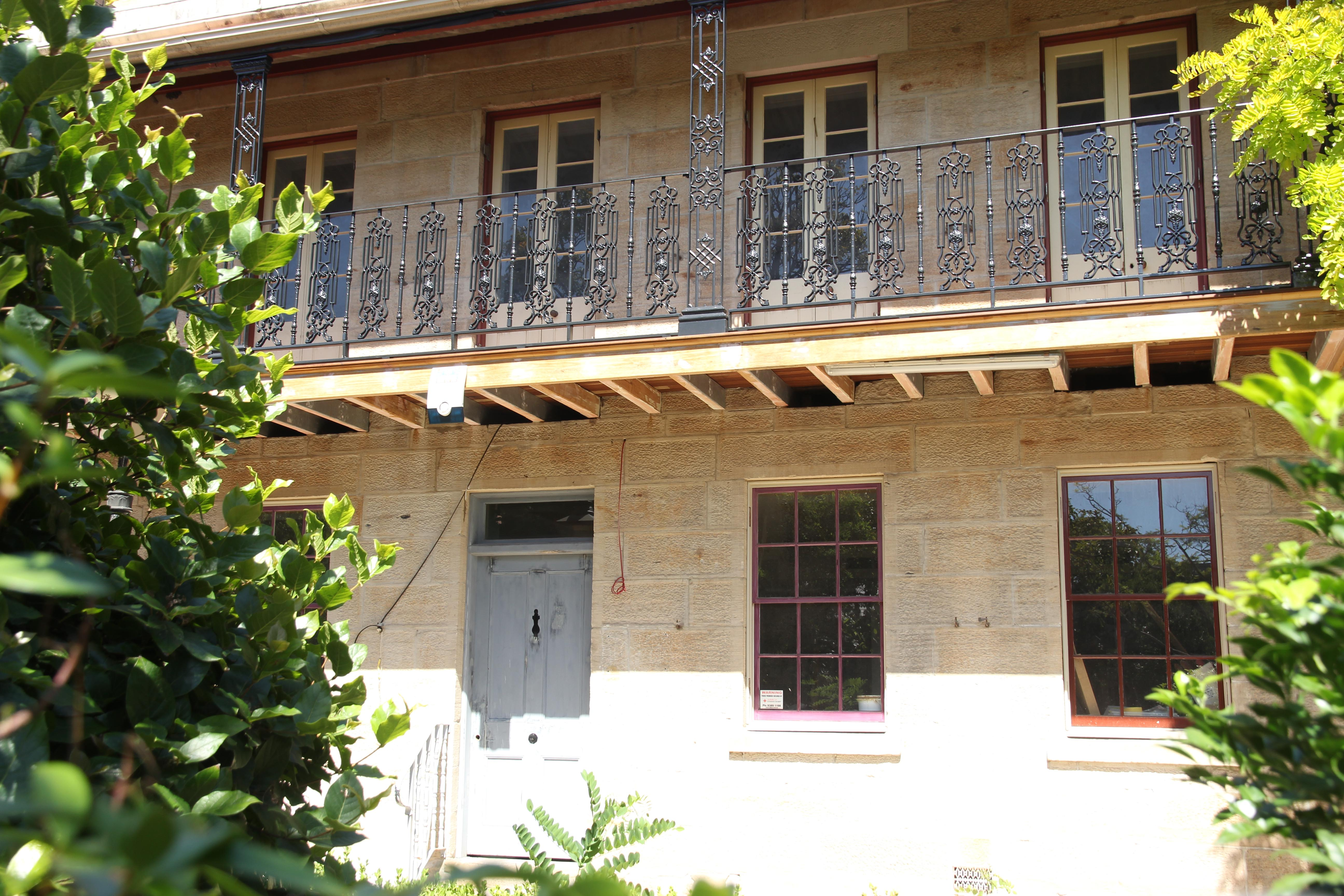 Darling House, 6-12 Trinity Avenue, Millers Point in the City of Sydney, New South Wales, Australia